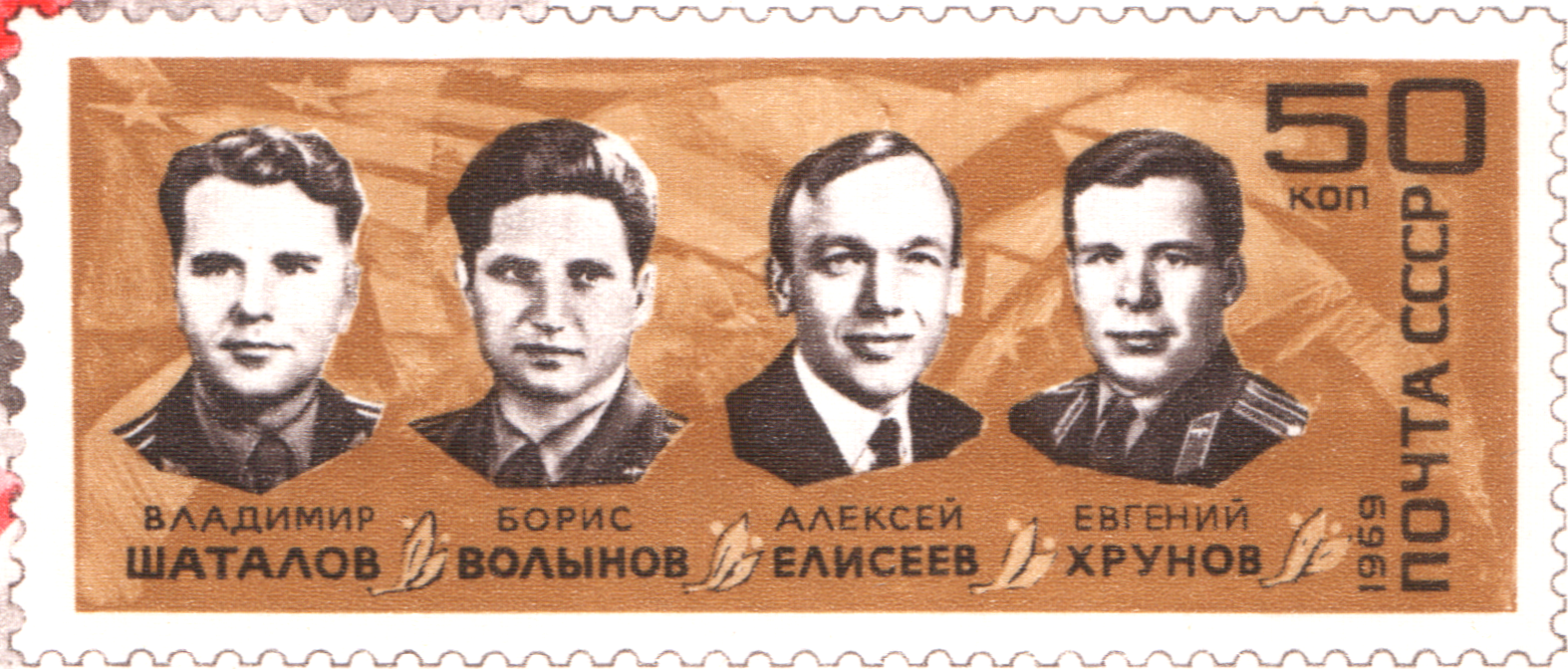 USSR stampː Vladimir Shatalov, Boris Volynov, Aleksei Yeliseyev and Yevgeny Khrunov. Seriesː 1st Team Spaceflights of Soyuz 4 and Soyuz 5, 1/16/69